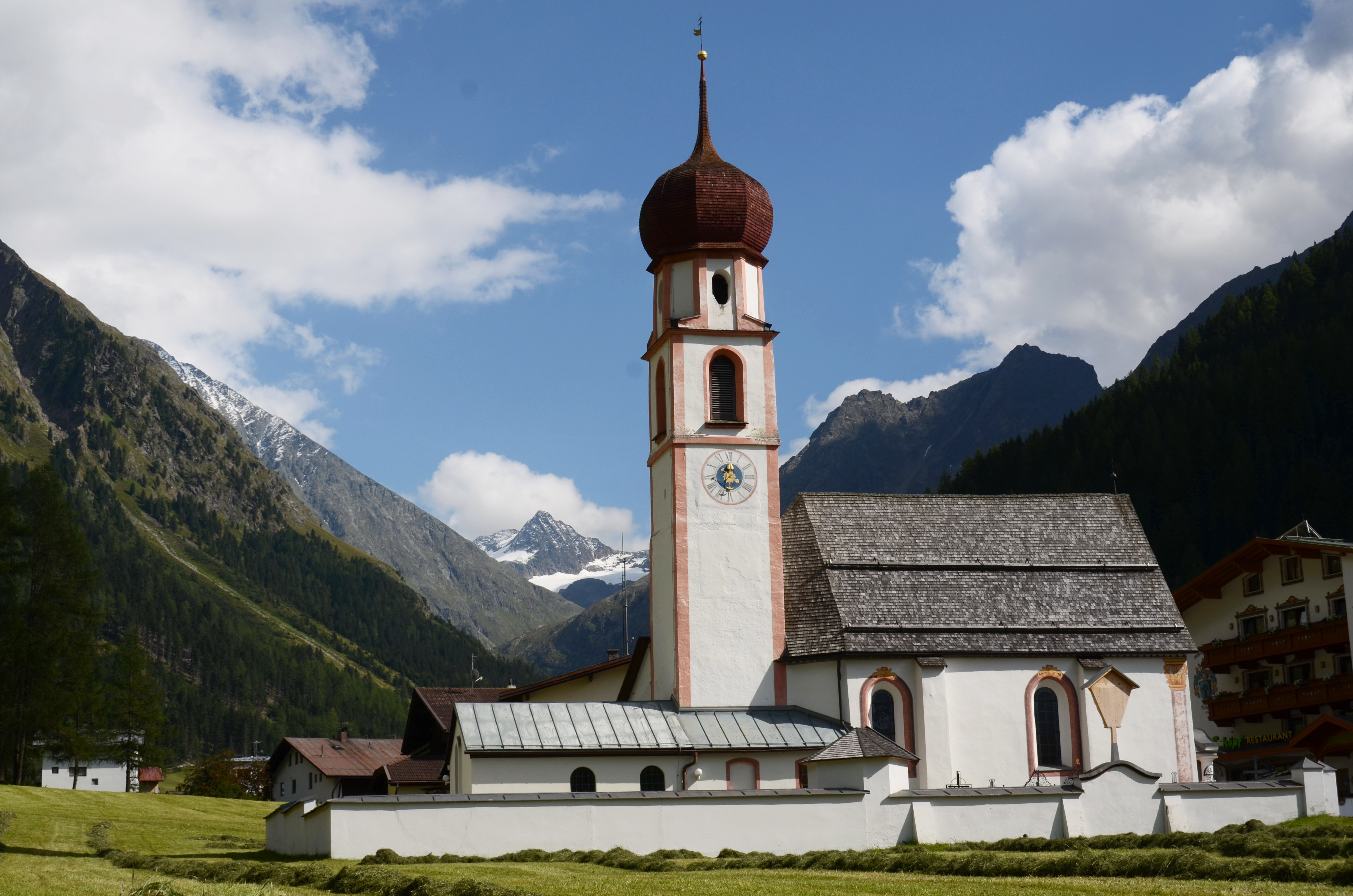 Sceneric church of Gries with left at some 9 km distance the Mutterberger Seespitze 3305m